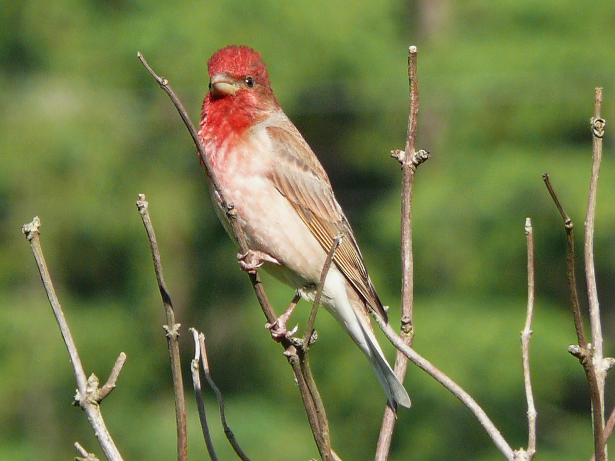 Common Rosefinch(Carpodacus erythrinus), Poland